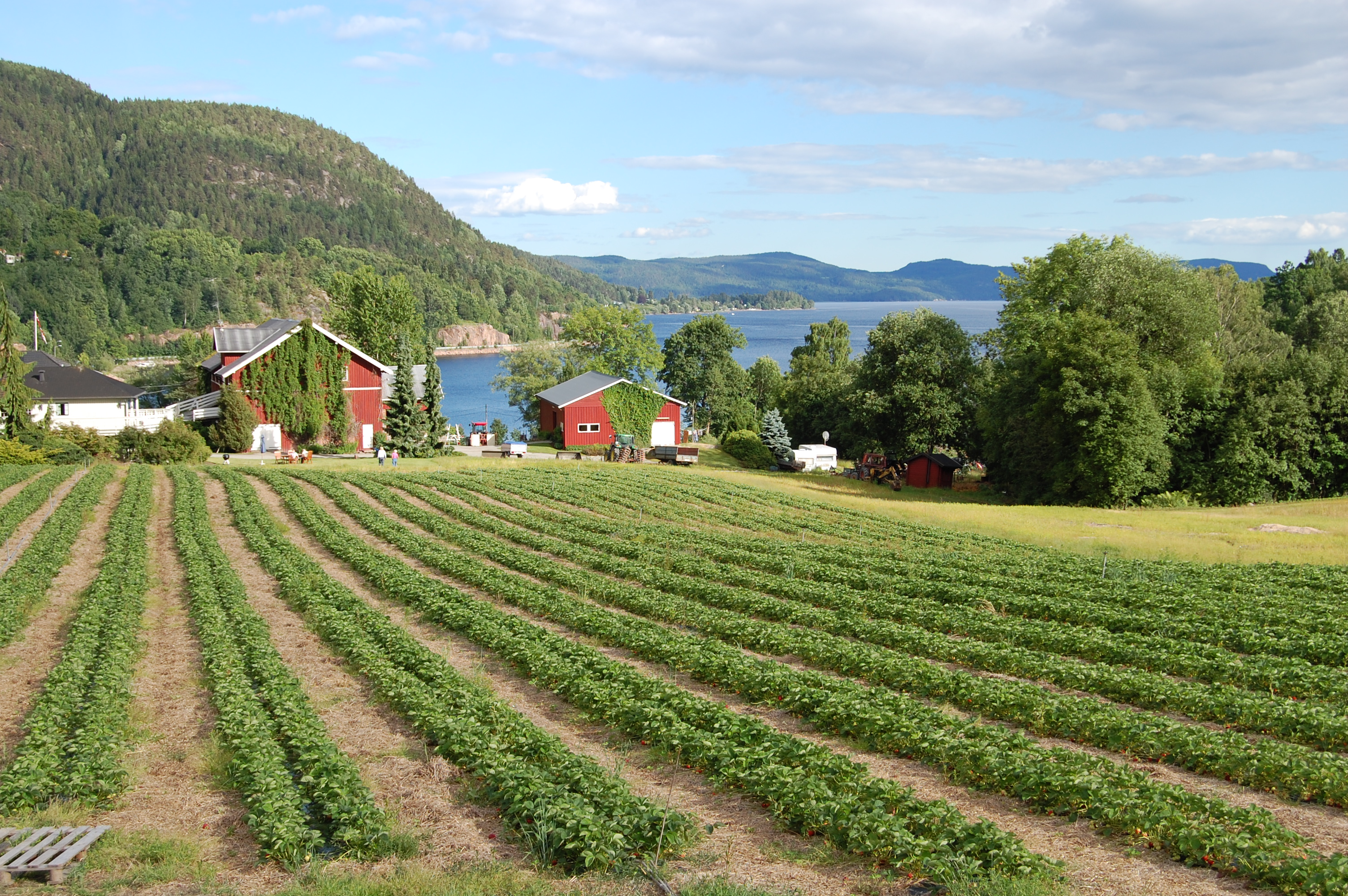 Hyggen in Røyken, Norway